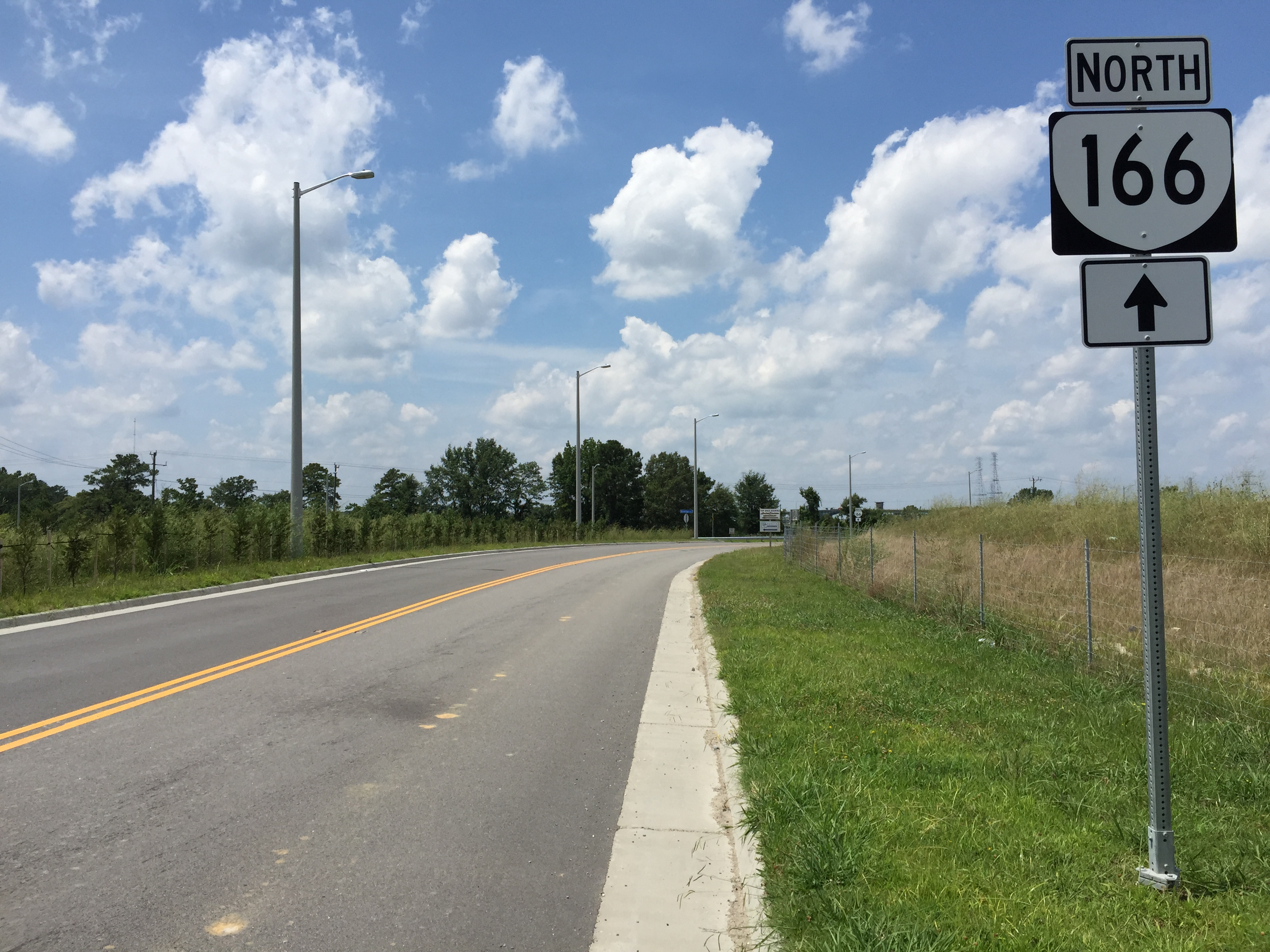 View north along Virginia State Route 166 (Bainbridge Boulevard) at U.S. Route 17 (Dominion Boulevard) in Chesapeake, Virginia